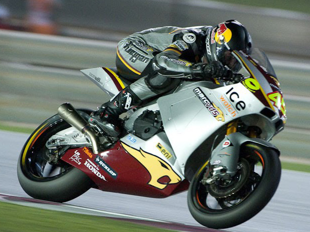 Scott Redding 2010 Qatar